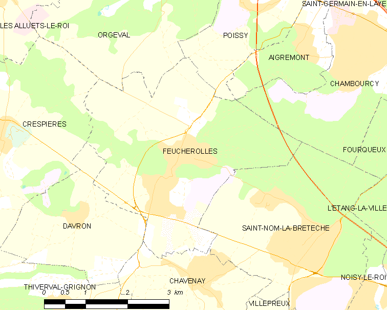 Map of French municipality Feucherolles